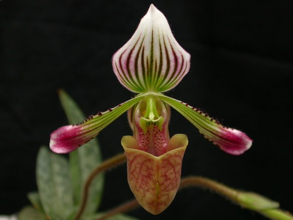 Paphiopedilum